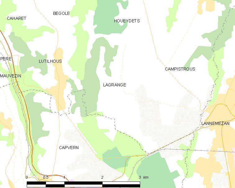 Map of French municipality